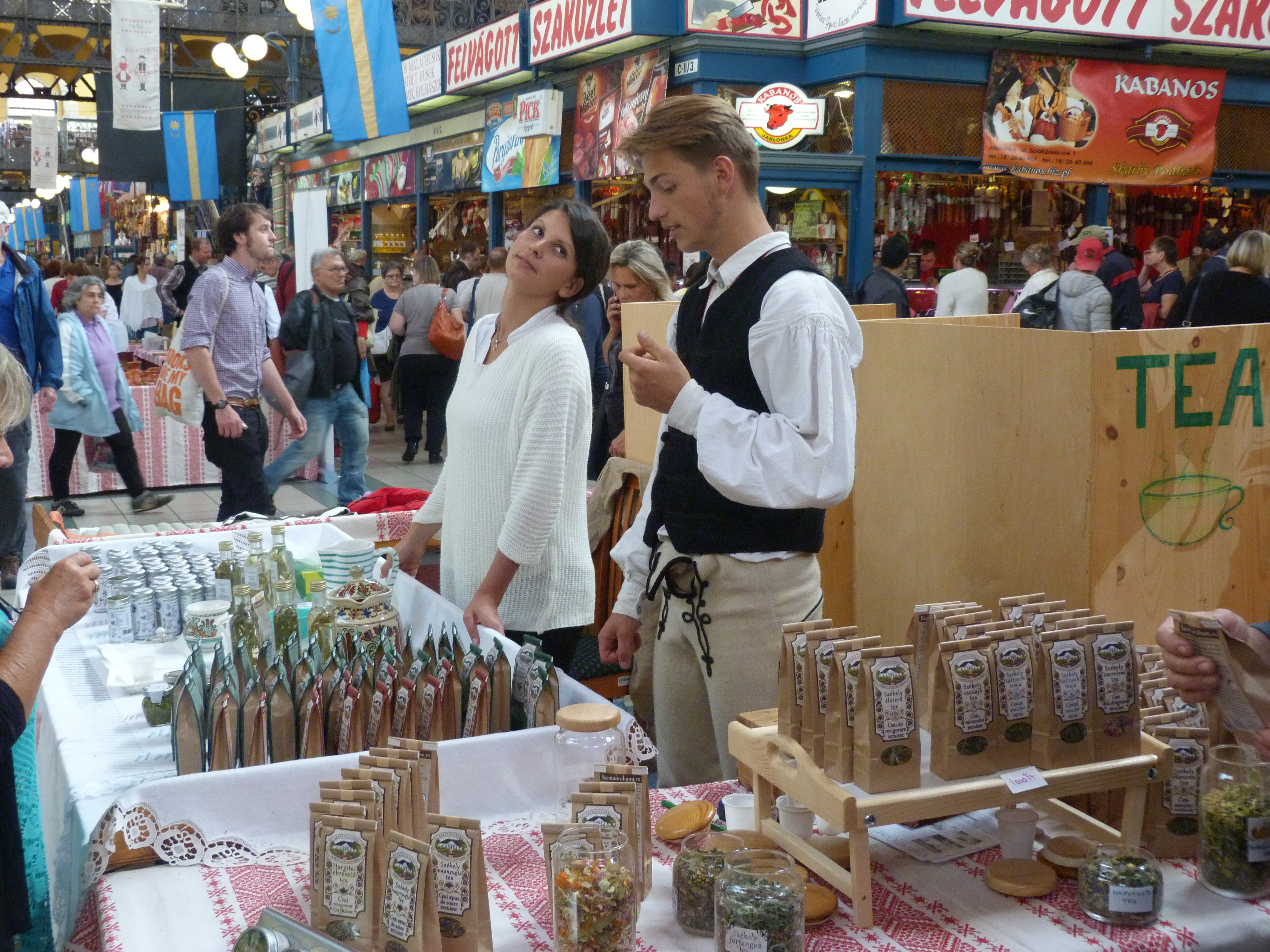 Live on the 12th of September, 2014. Budapest, Great Market Hall. Székely Land in the Great Market Hall. Goods of Székely Land. Legends of Székely Land. Map of Székely Land. ©© Derzsi Elekes Andor, Budapest 2014, You are authorised to use these photos and vids under Creative Commons – even for commercial, for profit purposes. Photos must be attributed to Derzsi Elekes Andor. All of the photos and vids in the Metapolisz DVD line are under Creative Commons and can be used even for commercial – for profit – purposes. Recommended Citation Derzsi Elekes Andor: Metapolisz DVD line